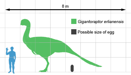 Size chart for Gigantoraptor erlianensis. The size of the eggs are based on fossil eggs previously assigned to Tarbosaurus bataar[1]. Some scientists, however, have assigned these eggs to a large oviraptorosaur.